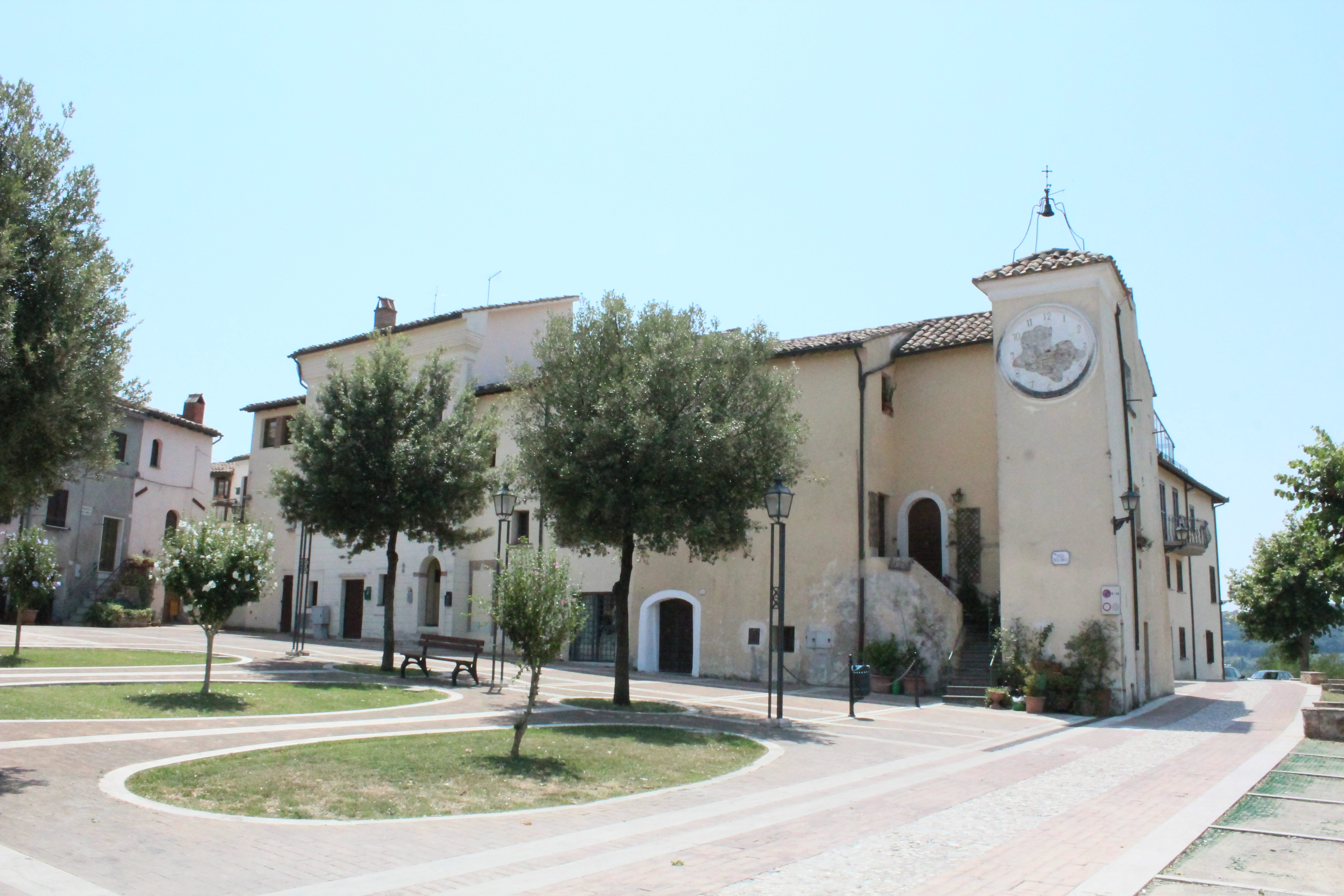 Piazza della Rocca with the Bell tower Torre dell’Orologio, Rocca di Attigliano in Attigliano, Province of Terni, Umbria, Italy